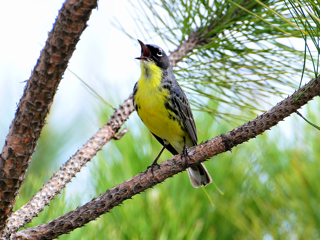 A male Kirtland's Warbler in a jack pine forest in Michigan, USA.